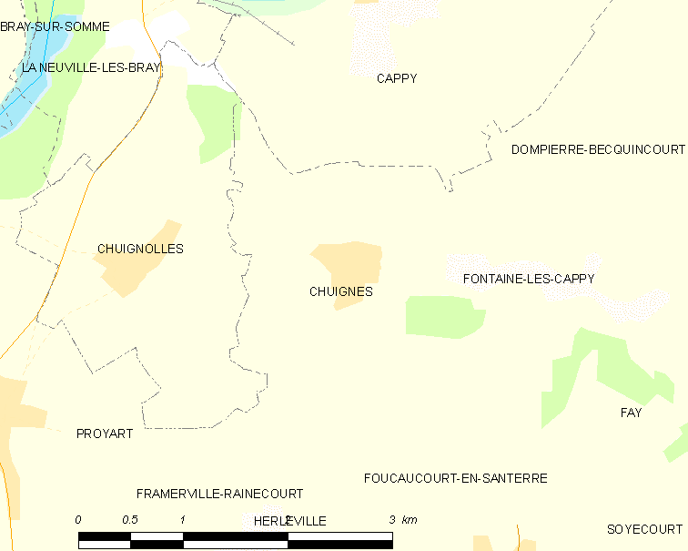 Map of French municipality Chuignes